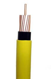 Leaky Feeder Coaxial Cable (Side View)